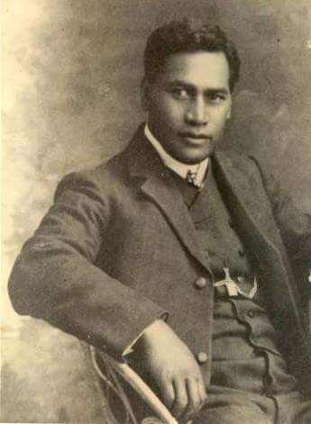 Paraire Tomoana 1900